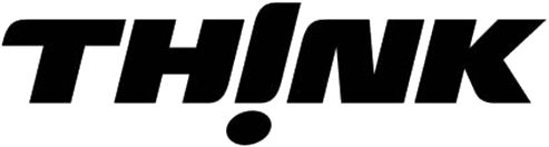 The logo of the car manufacturer Th!nk.